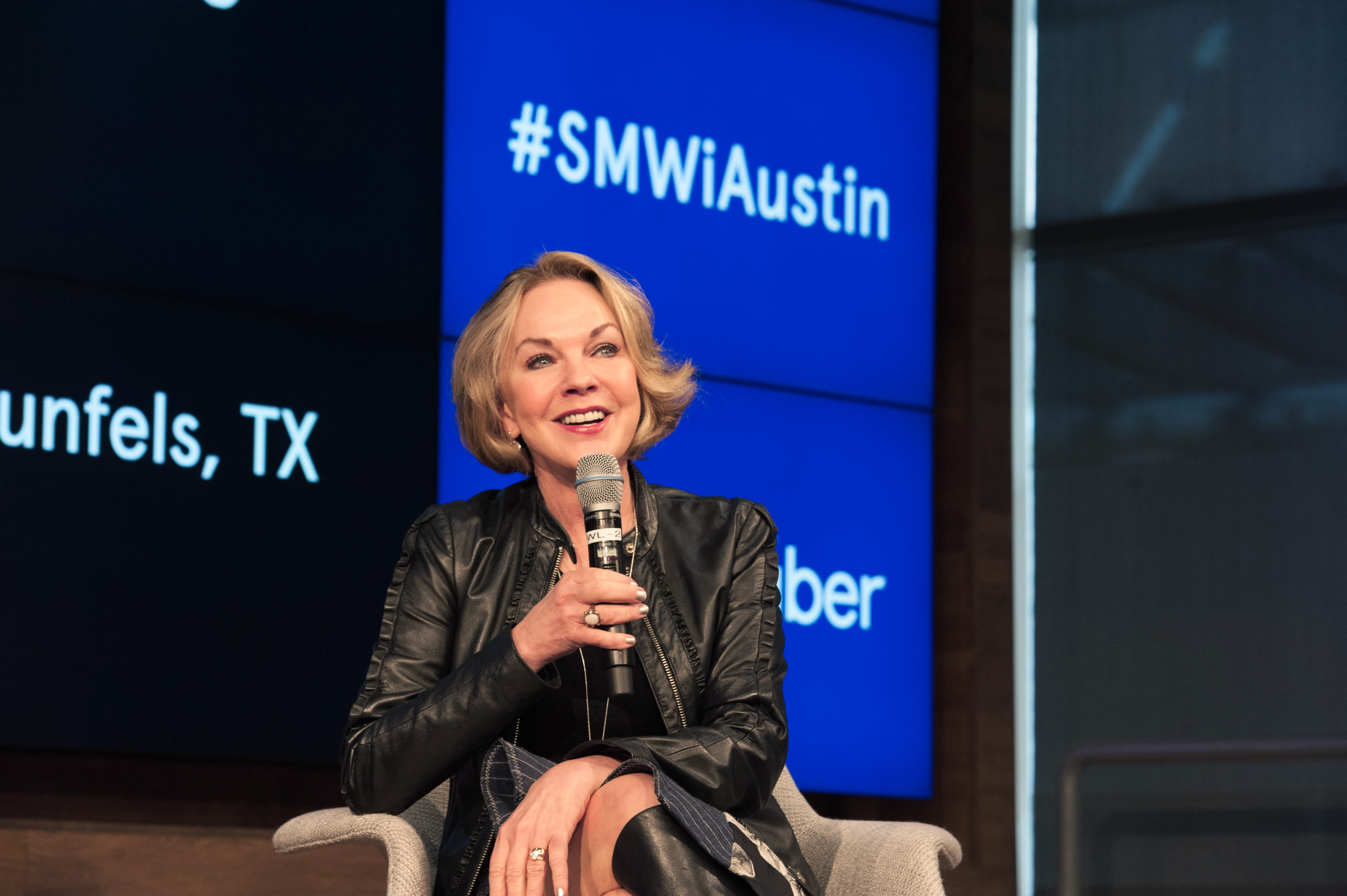 Gay Gaddis at Social Media Week 2017 (SMWi) in Austin, TX